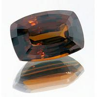 This is a Faceted Honey Zircon Gemstone.